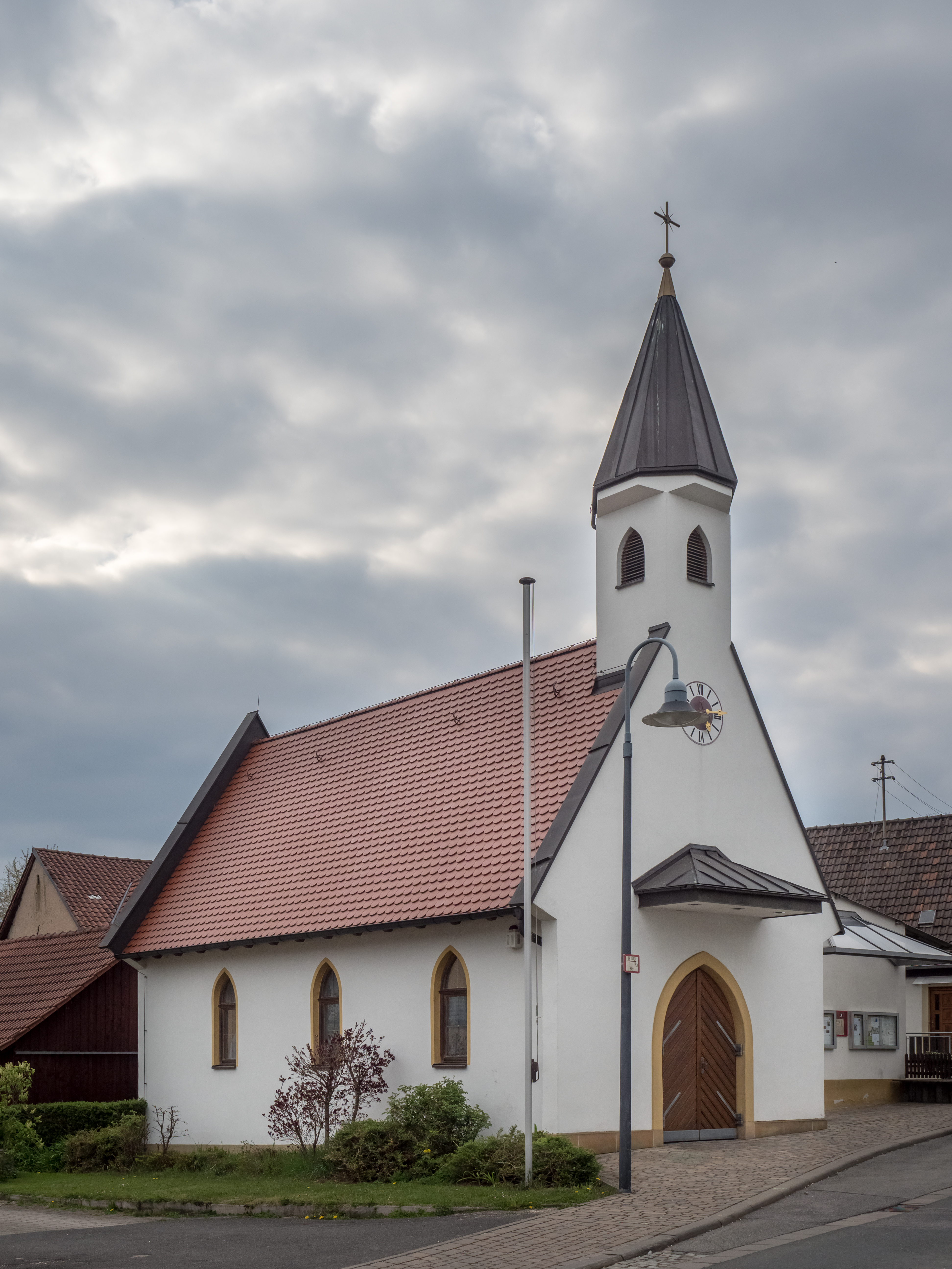 Anna Chapel in Weichendorf